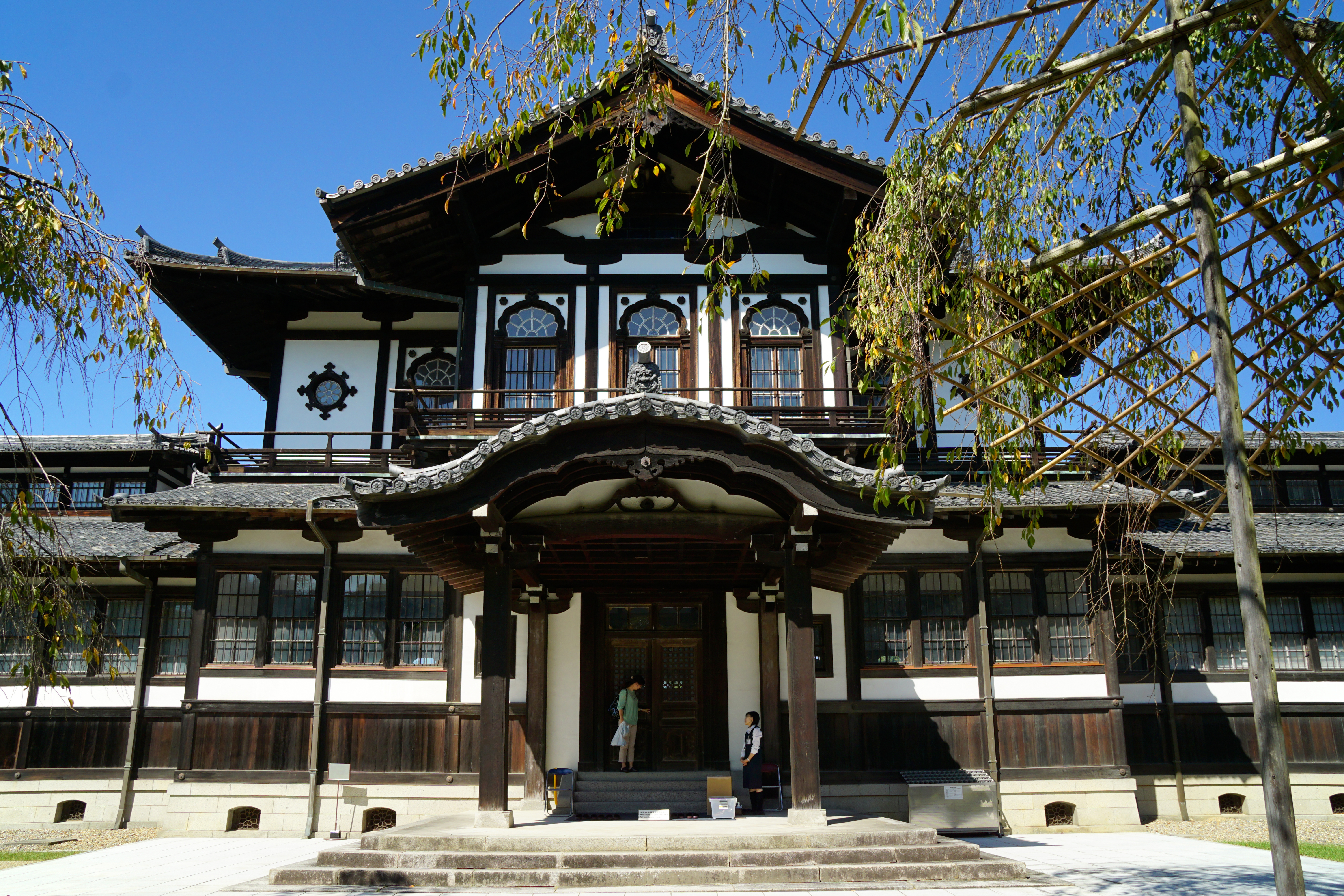 Research Center for Buddhist Art Materials of Nara National Museum in Nara, Nara prefecture, Japan.